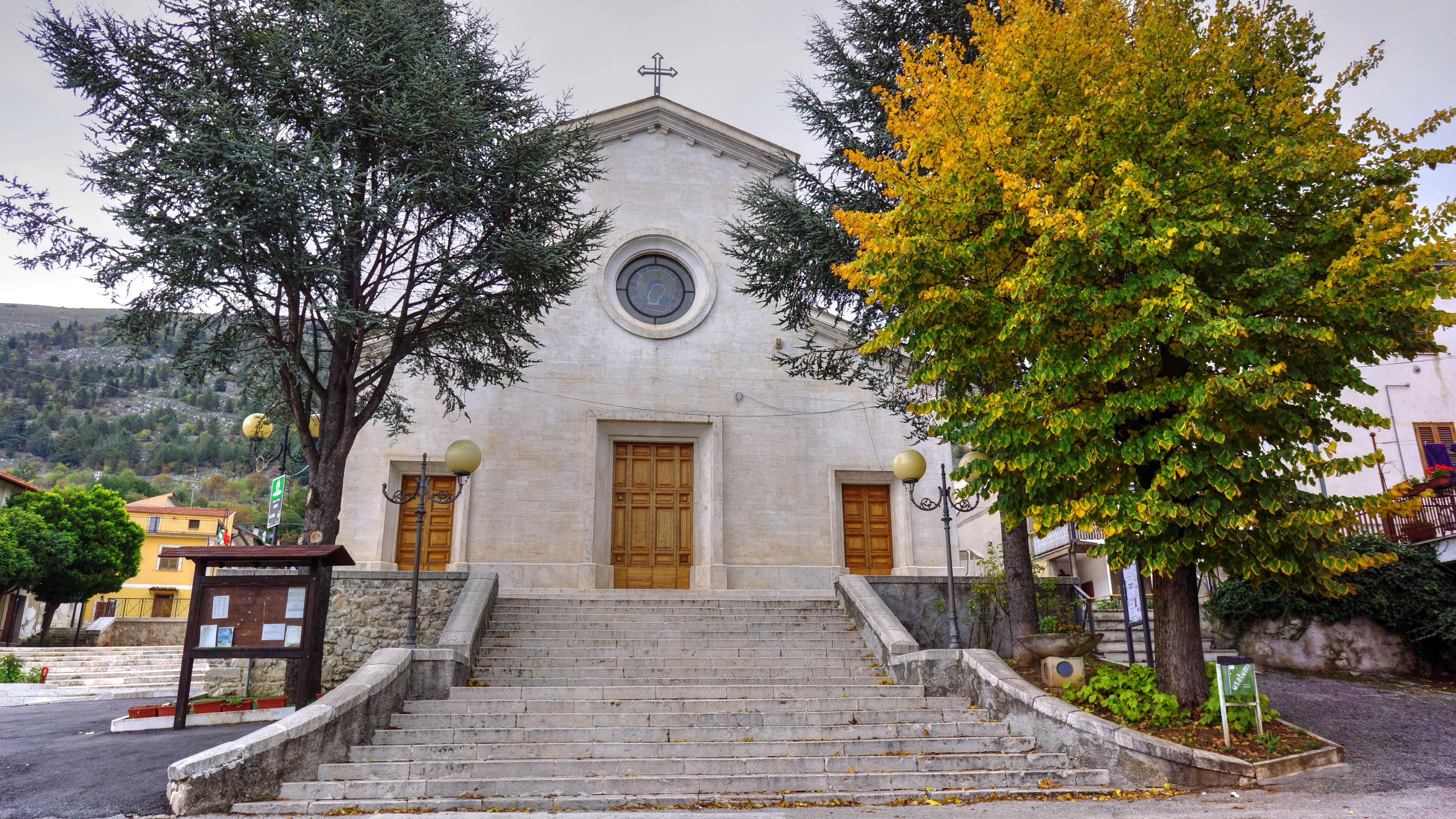 Church of St. Mary, Cese di Avezzano, Abruzzo, Italy